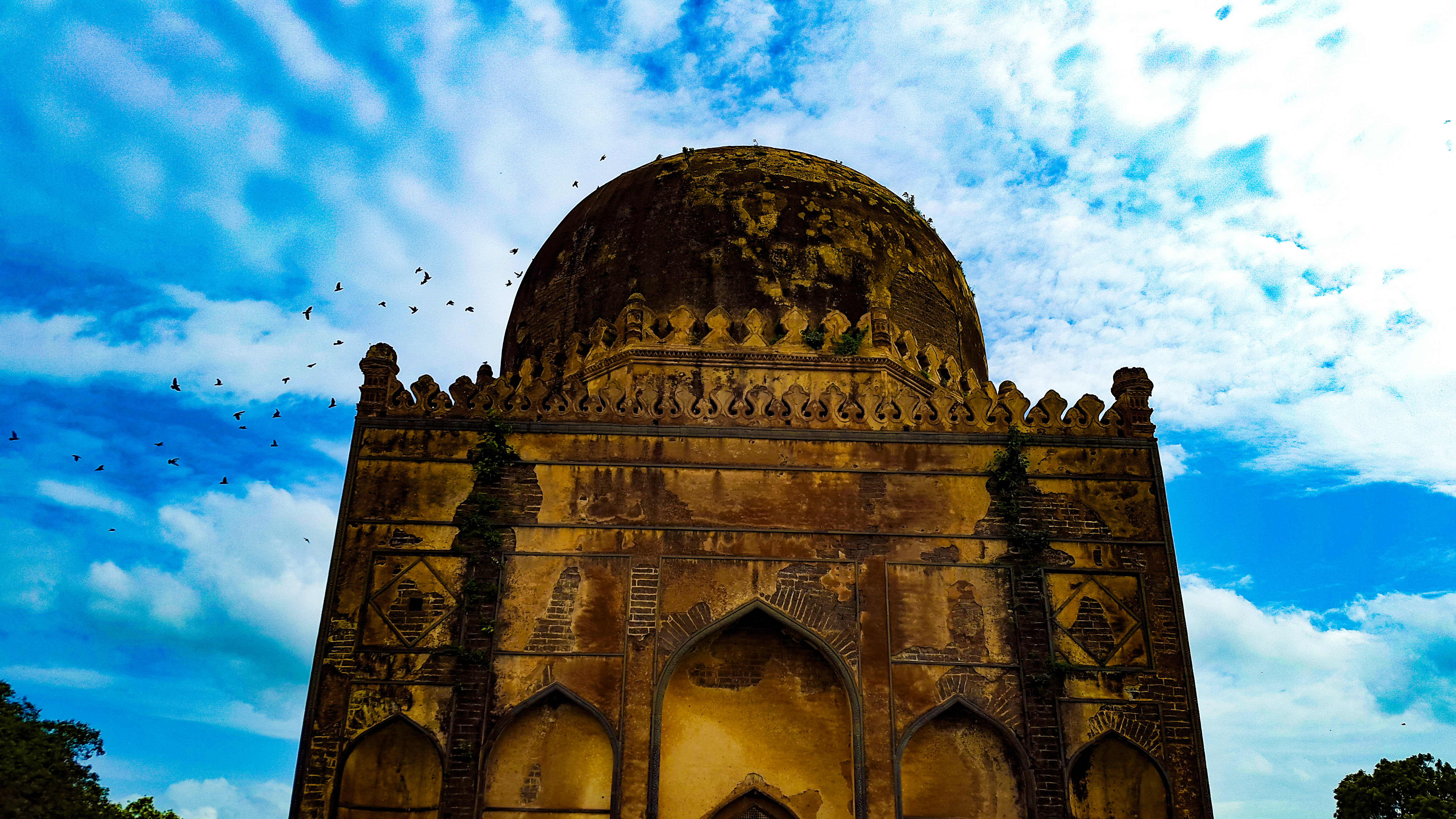 This image shows the great construction of the Bahamani Tombs in bidar district of karnataka in India